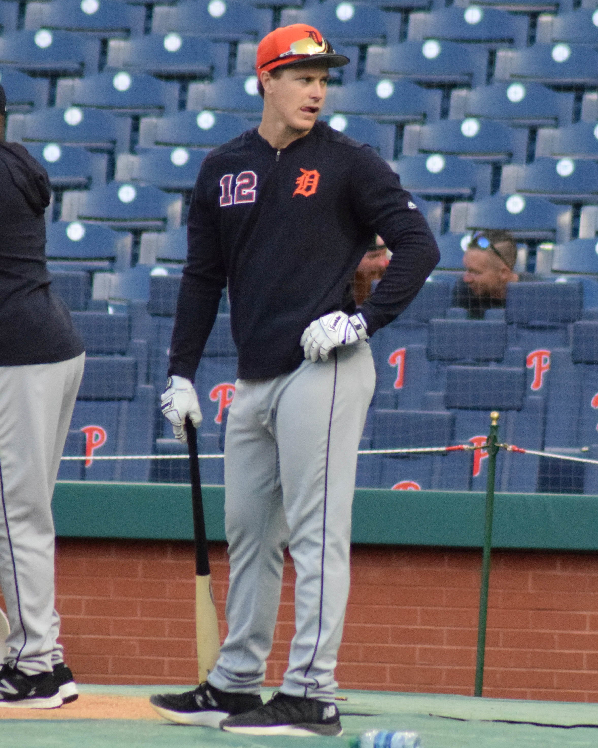 Brandon Dixon of the Detroit Tigers at Citizens Bank Park in Philadelphia in April 2019.